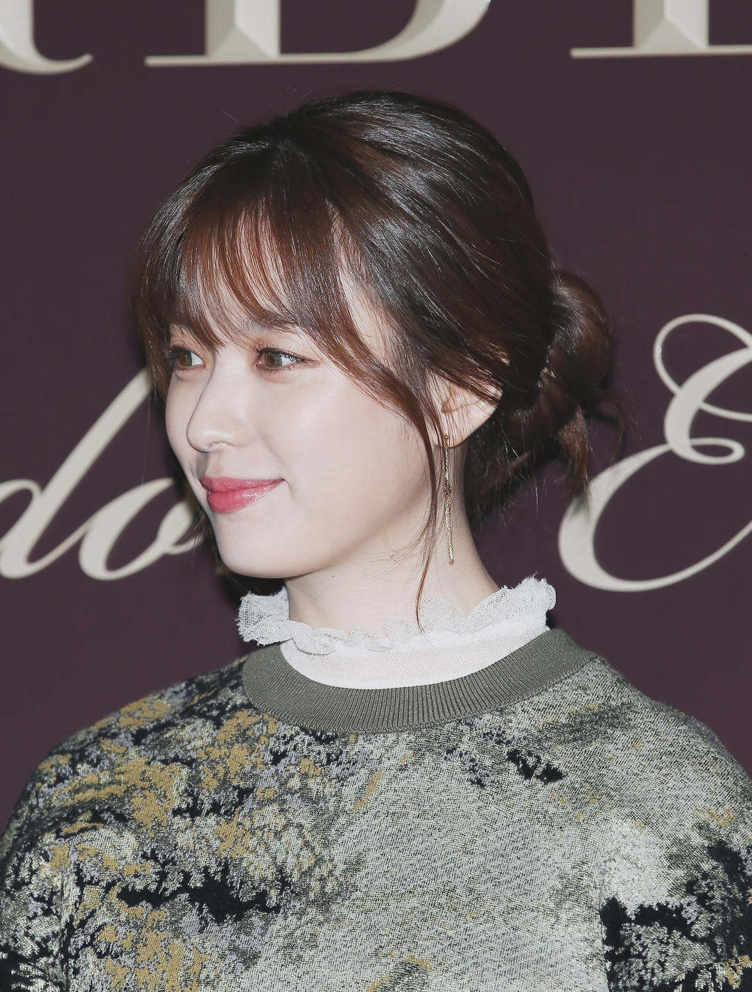 161129 버버리 한효주